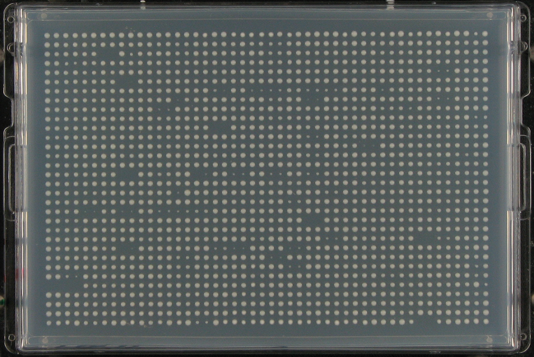 Yeast colonies array, 1536 density, arrayed in duplicates. The plate is showing synthetic lethal interactions (shown by pairs of colonies with reduced/no growth colonies).